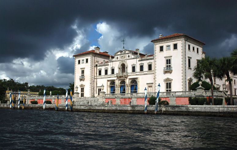 Villa Vizcaya Museum and Gardens, Miami, Florida, USA